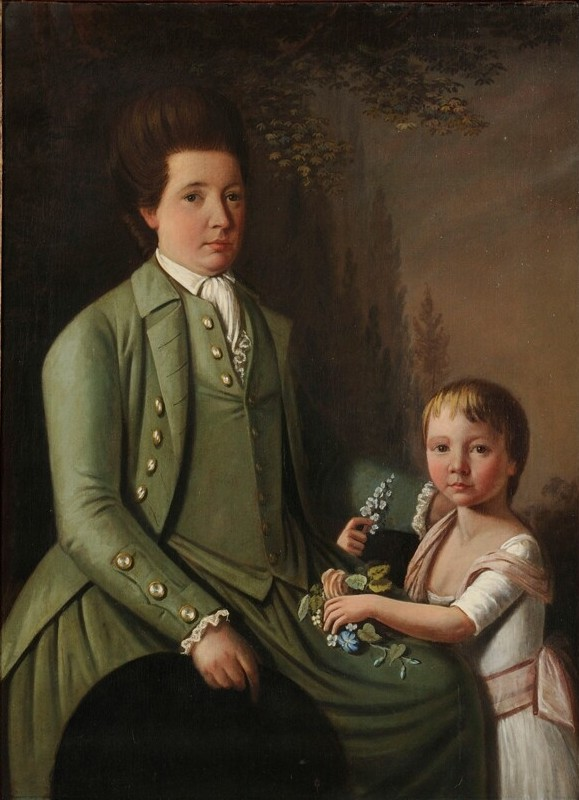 Double portrait of woman and child. From internal evidence relating to the Disney family, the child has tentatively been identified as Frances Mary Disney, daughter of John Disney (1746–1816) and hios wife Jane Blackburne, who married Thomas Jervis (1748–1833).